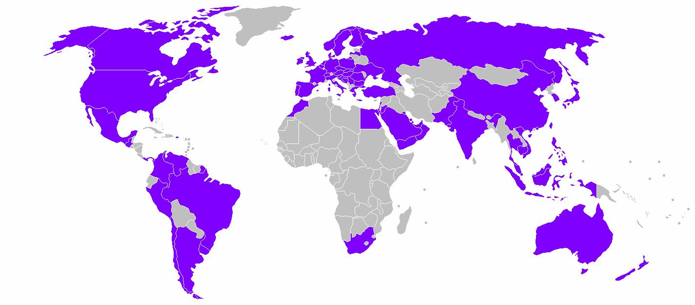 L'Oréal Group global locations